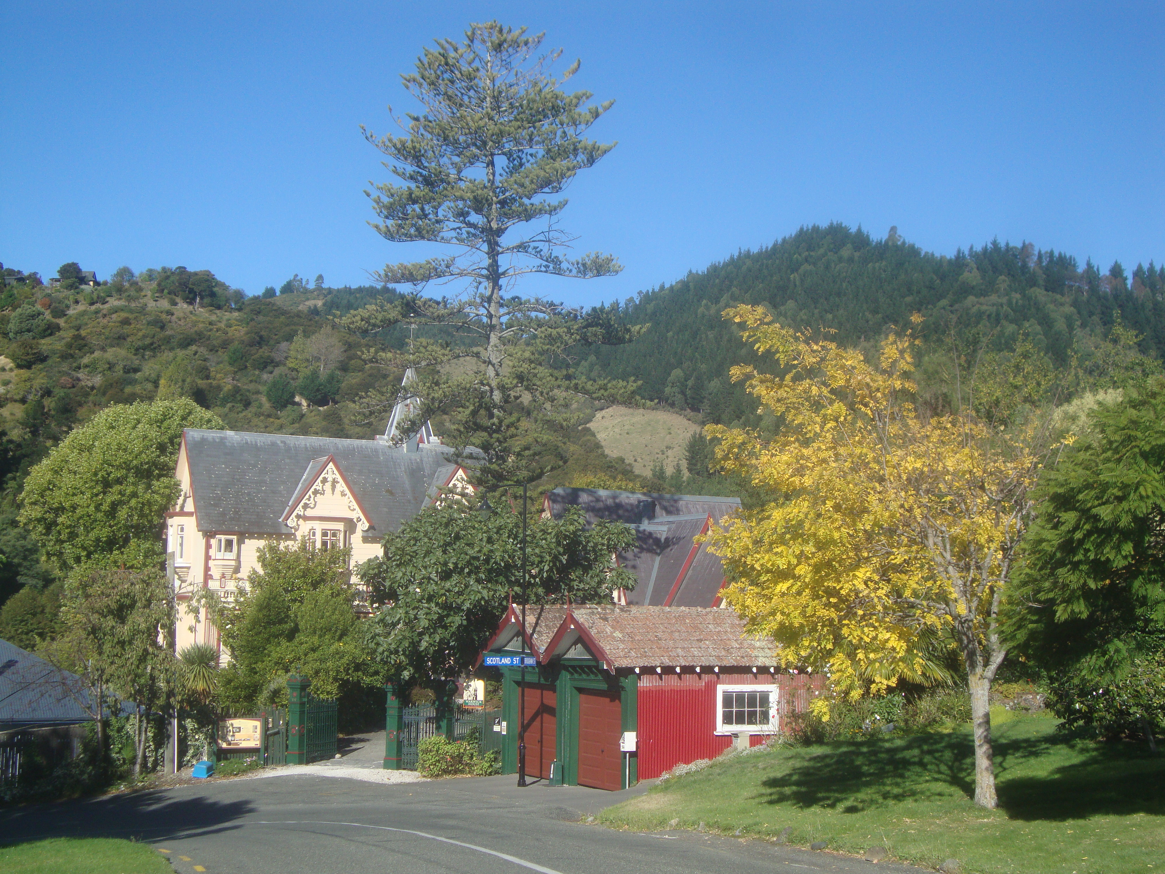 Warwick House in Nelson in April 2012.